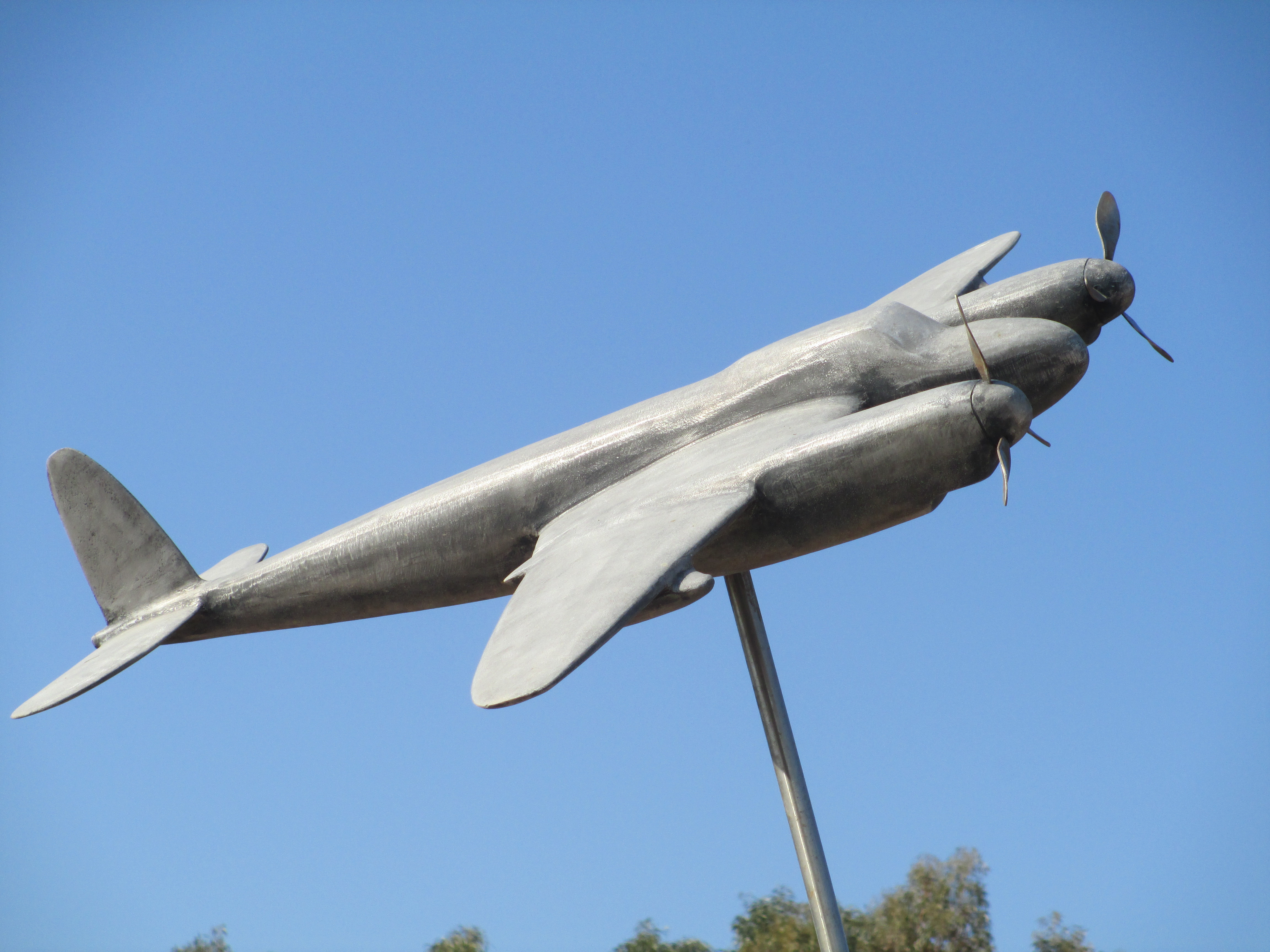 A memorial to the pilot Dani Stahl